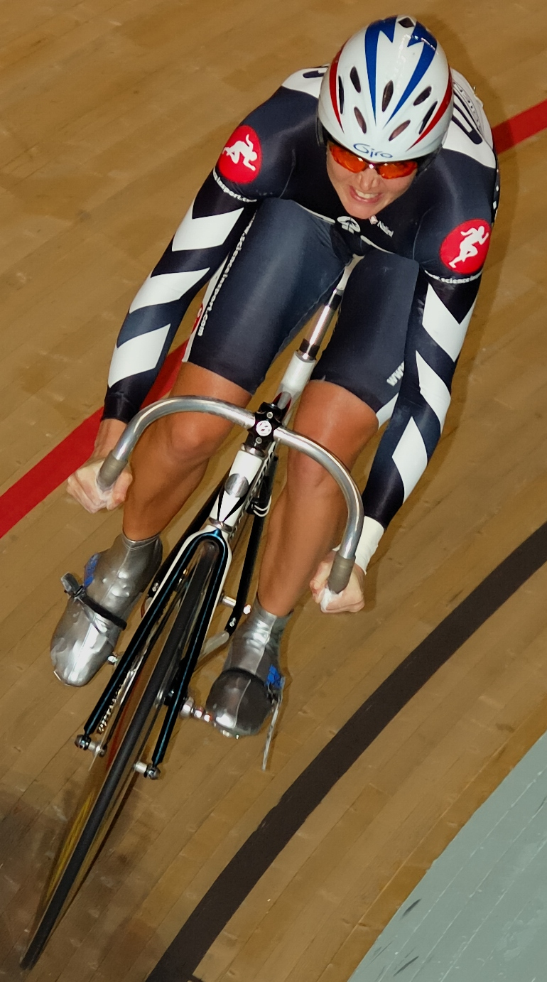 British cyclist Victoria Pendleton comes 1st in the 500m Time Trial with a time of 34.825s at the 2007 UK National Track Championships